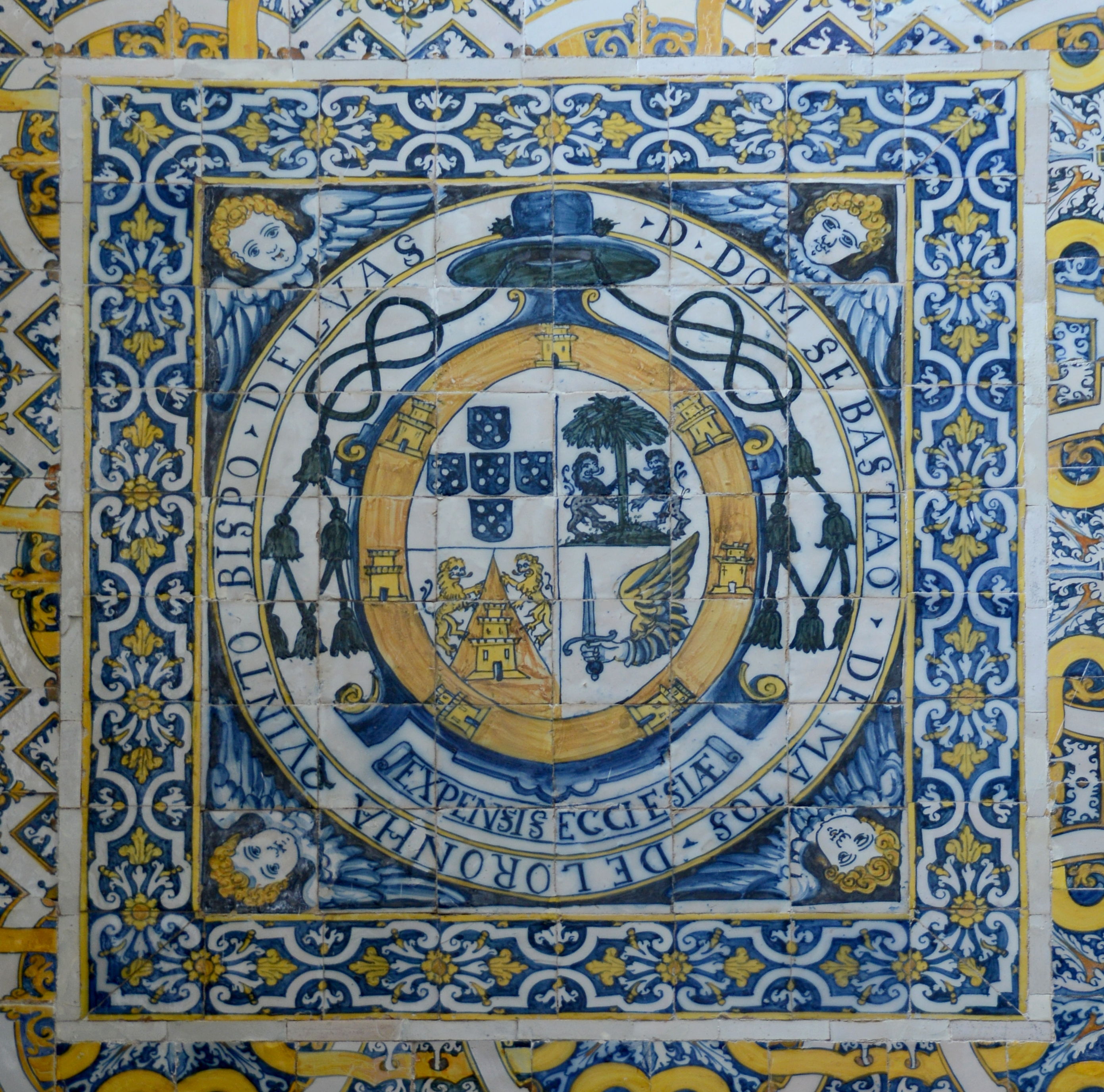 Church of 'Nossa Senhora da Assunção' (Our Lady of the Assumption), Elvas, Portugal. Glazed tile (azulejo) with the arms of the Fifth Bishop of Elvas, 18th century